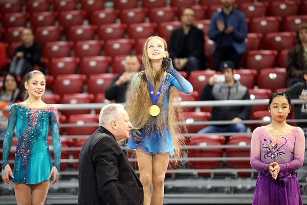 Photos – Junior World Championships 2018 – Ladies (Medalists)